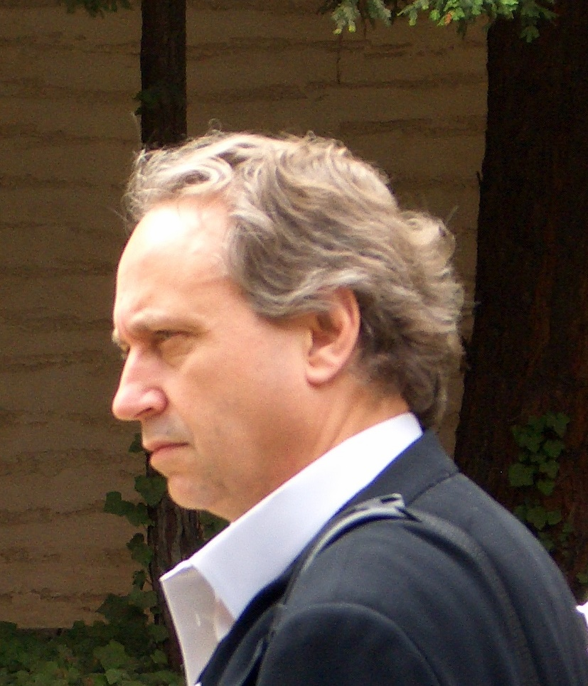 Rodney Brooks